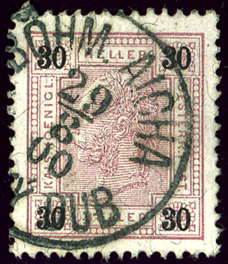 Austrian KK 30 heller stamp, bilingual cancelled in 1900 at Böhmisch Aicha - Český Dub, Bohemia (Czech Republic)